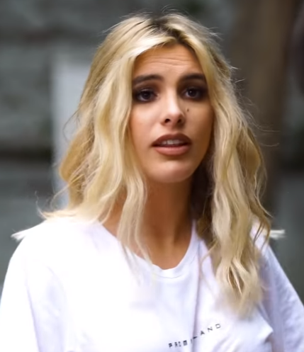 Lele Pons in a Youtube skit from 2017